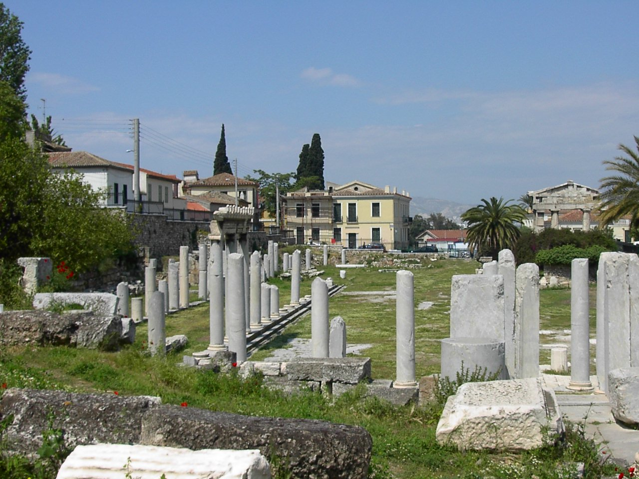 View of Athens Roman Agora.